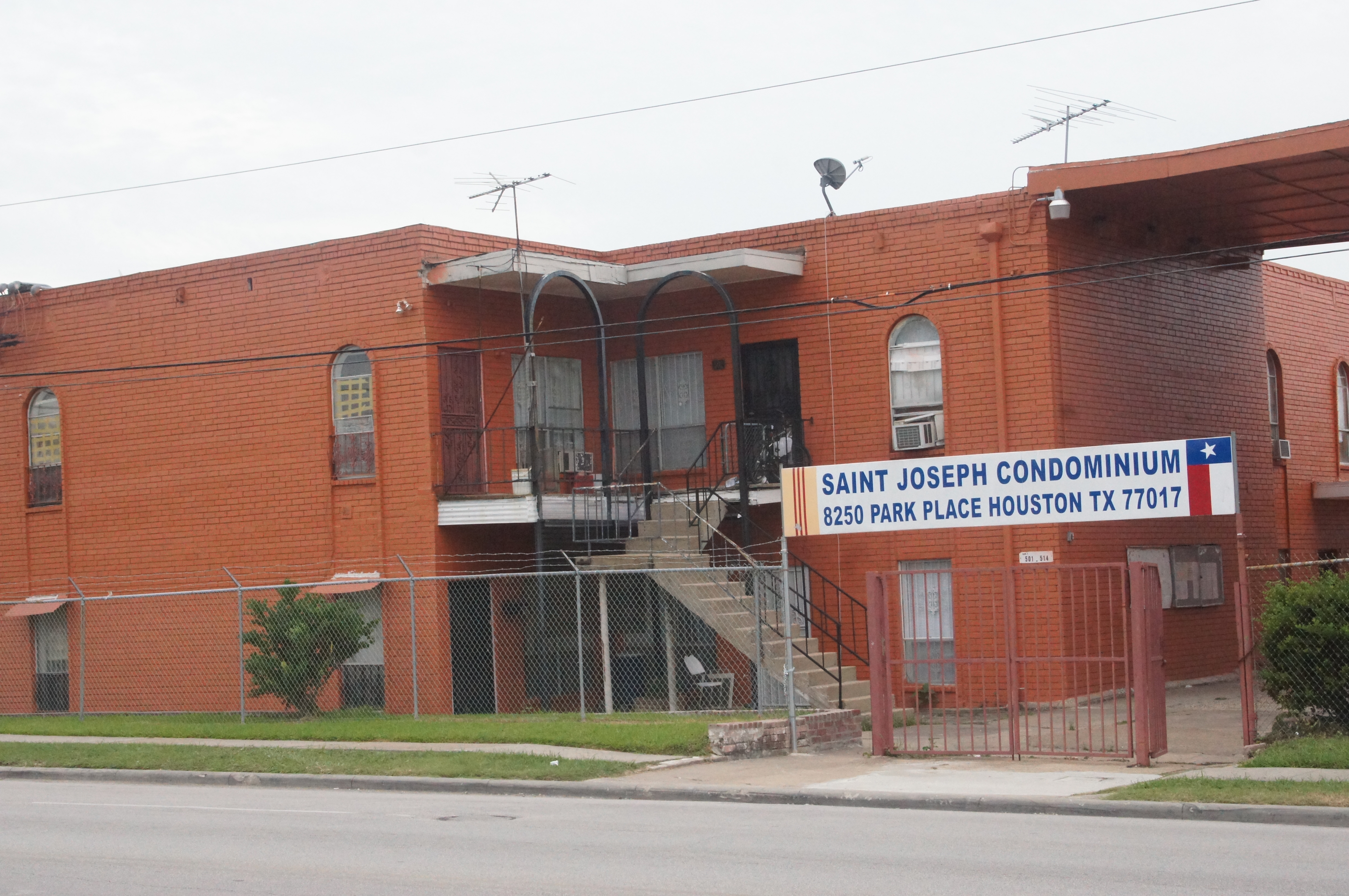 View from across the street.